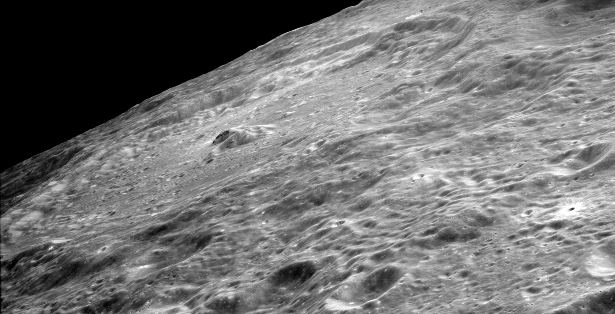 Sklodowska lunar crater - part of the Apollo 17 panoramic photo AS17-P-2845.